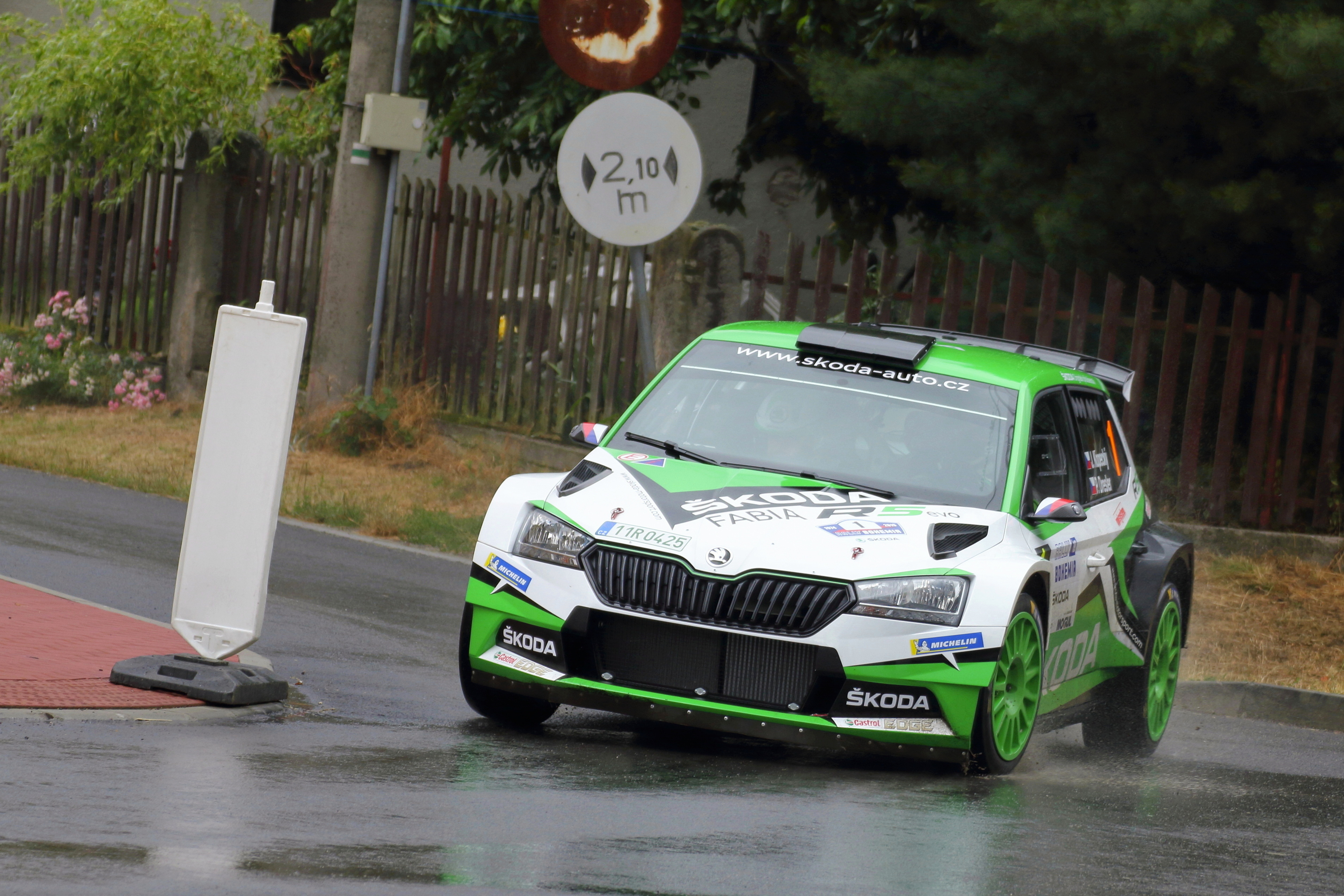 Jan Kopecký - Pavel Dresler, Škoda Fabia R5 evo, 2019 Rally Bohemia